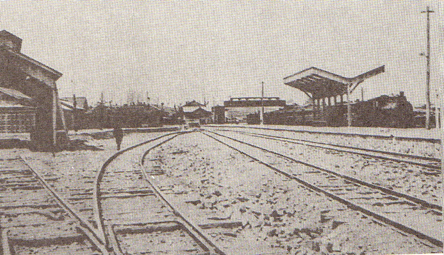 Japanese National Railways Sanda station. Right side is Fukuchiyama line, and left side is Arima line. The photo was taken soon after the opening of Arima line. The photo was taken before 1947, because Arima Line was abondoned in 1943. Therefore under the old copyright law of Japan, the copyright of the photo had already expired.